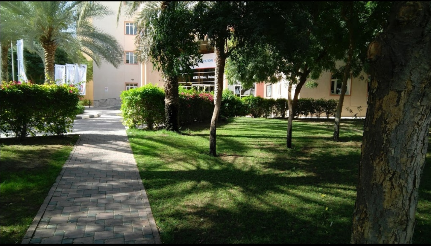 Pic showing main building and park of BITS Pilani, Dubai campus